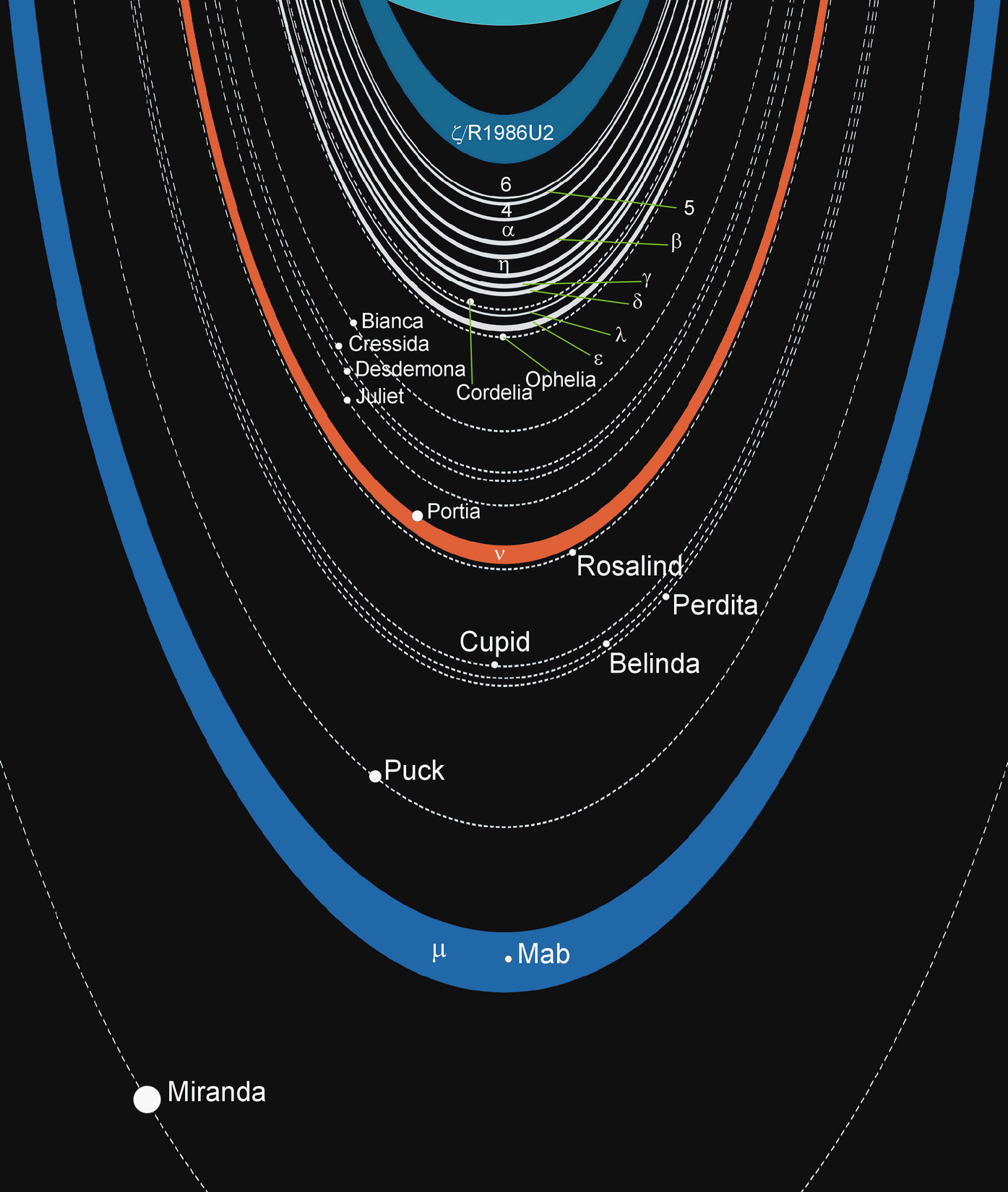 To-scale schematic of the ring and moon system of the planet Uranus.